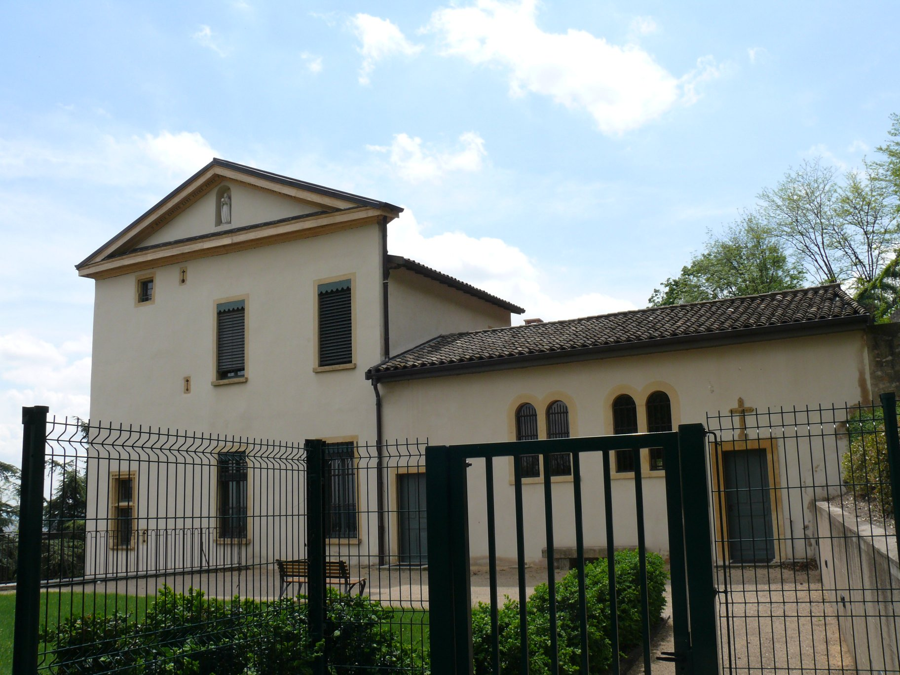 Pauline Jaricot's house in Lyon (Rhône, France).